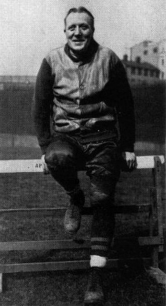 Jock Sutherland, legendary coach of the Pitt Panther football team